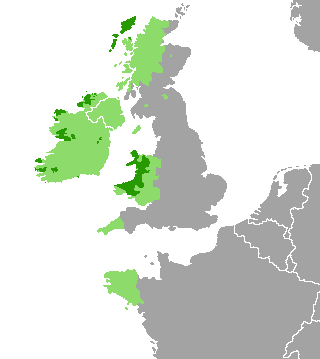 Regions where Celtic languages are currently spoken. By a majority. By a minority.